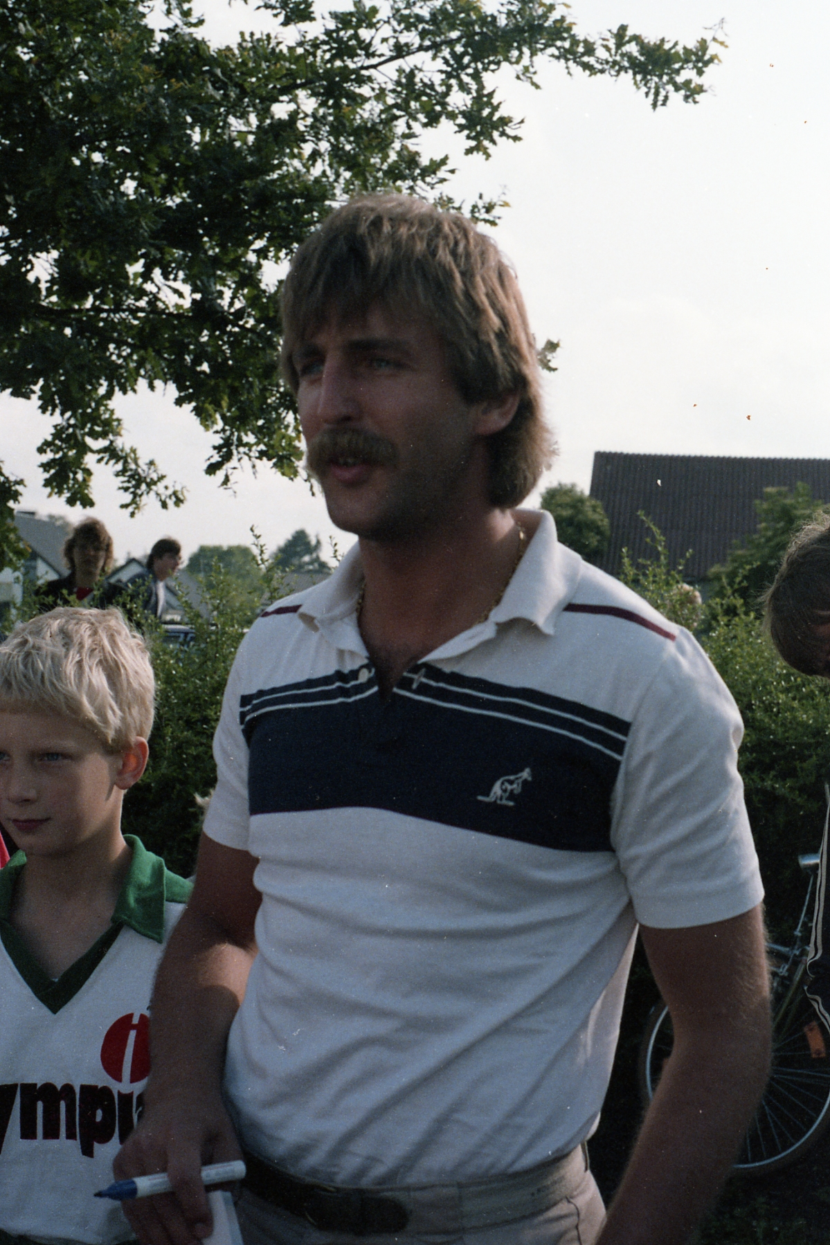 German Soccer Player Uwe Reinders 1984